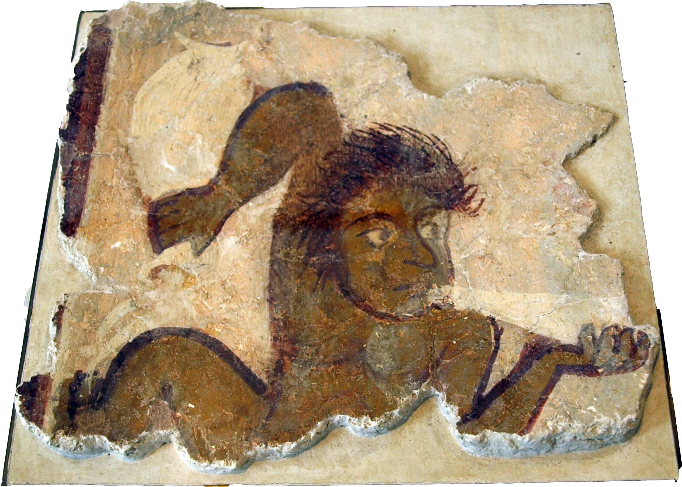 Byzantine fresco painting depicting Notos, the god of the south wind. On display at the Royal Ontario Museum, Toronto. Background knocked out from image.